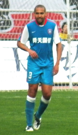 Eleílson Farias de Moura, Jiangsu Sainty player